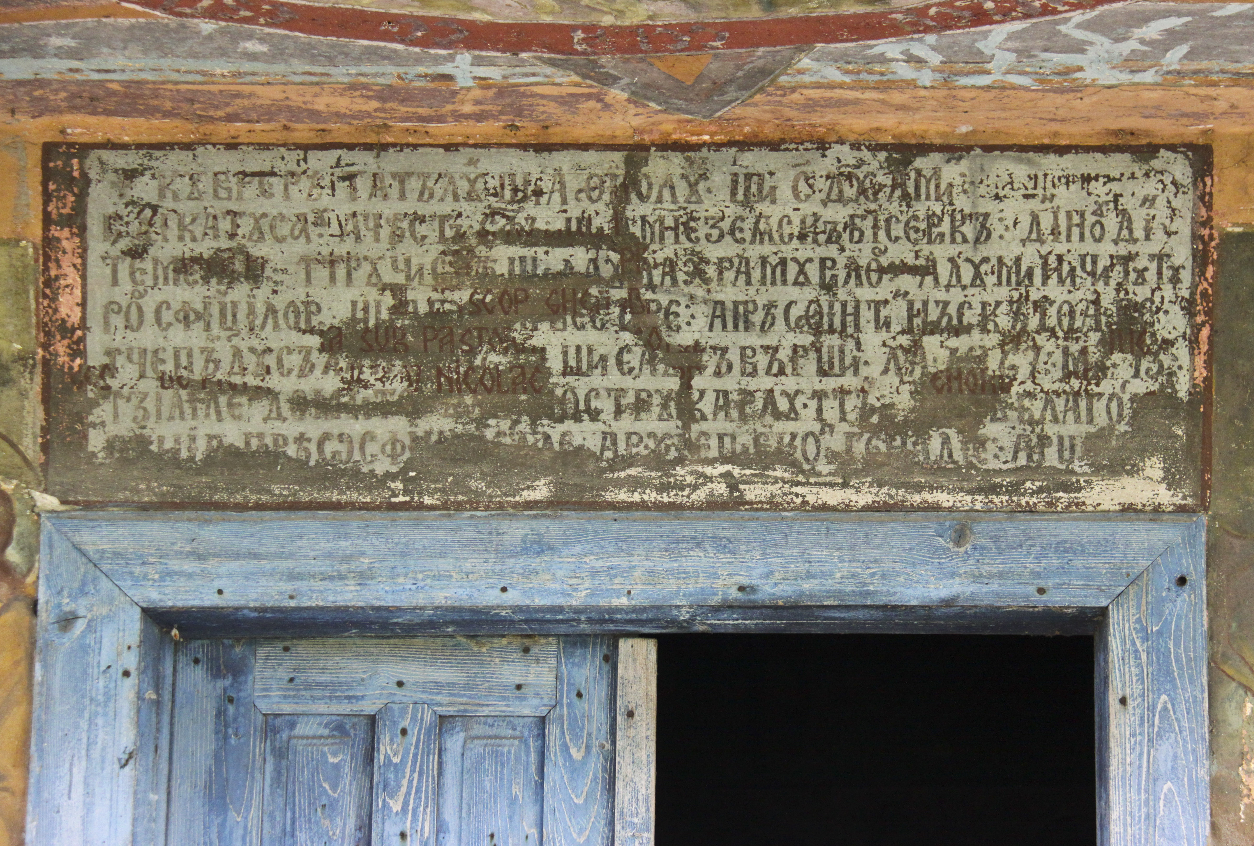 Cerşani, Argeş county, Romania: the wooden church.